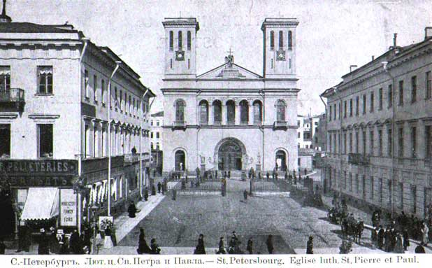 Lutheran Church of Saint Piter in 1900s